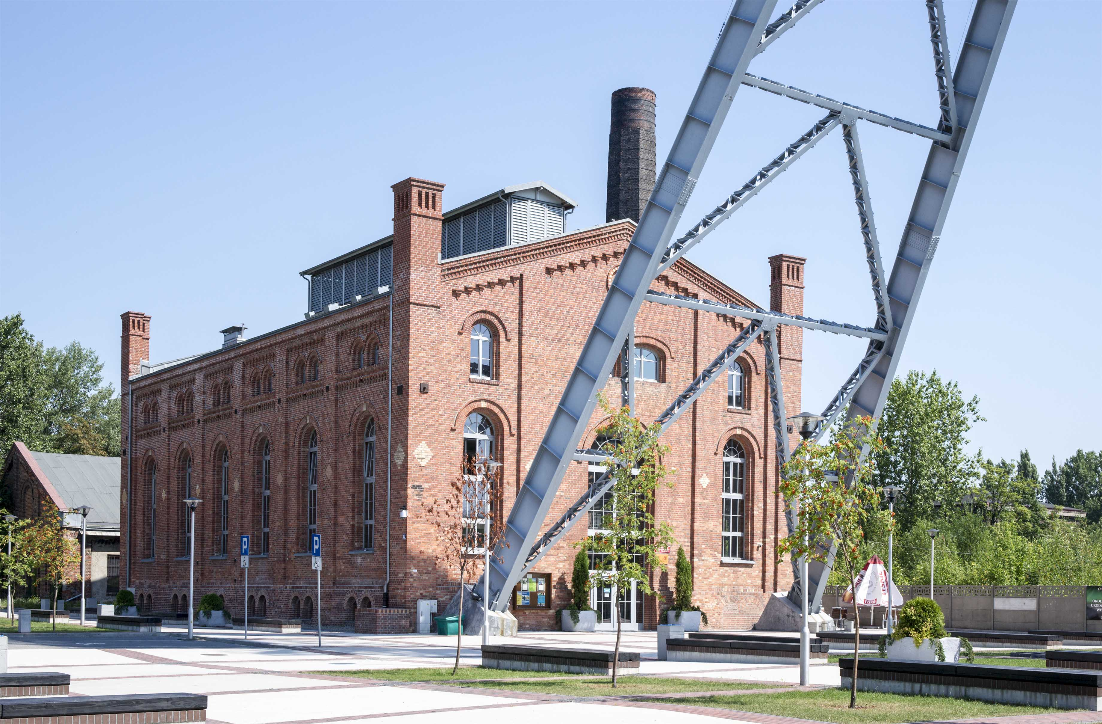 Mine Michal, Poland